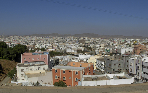 Abha View From The Top Of Mountains